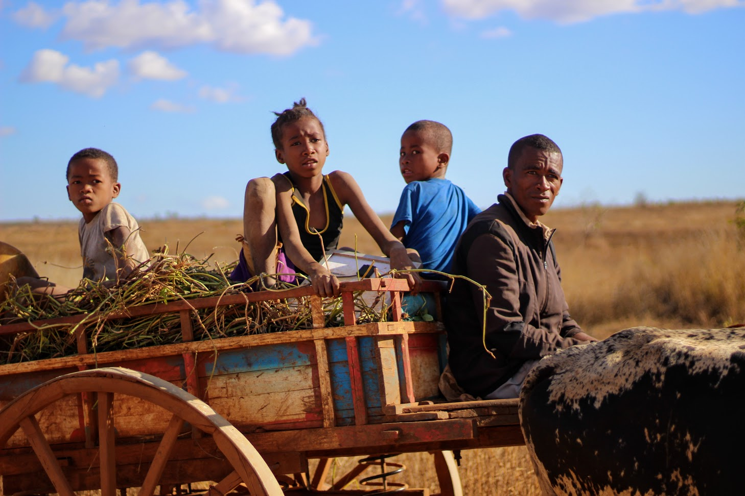 This is an image with the theme "Africa on the Move or Transport" from: Madagascar